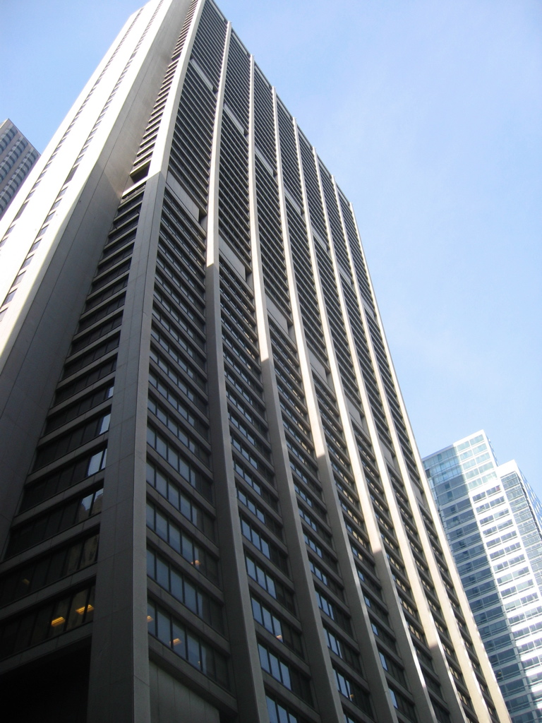 Chase Tower, Chicago, Illinois (W Monroe St. & S. Clark St.). Has the headquarters of Chase bank and Exelon and formerly had the headquarters of Bank One Corporation